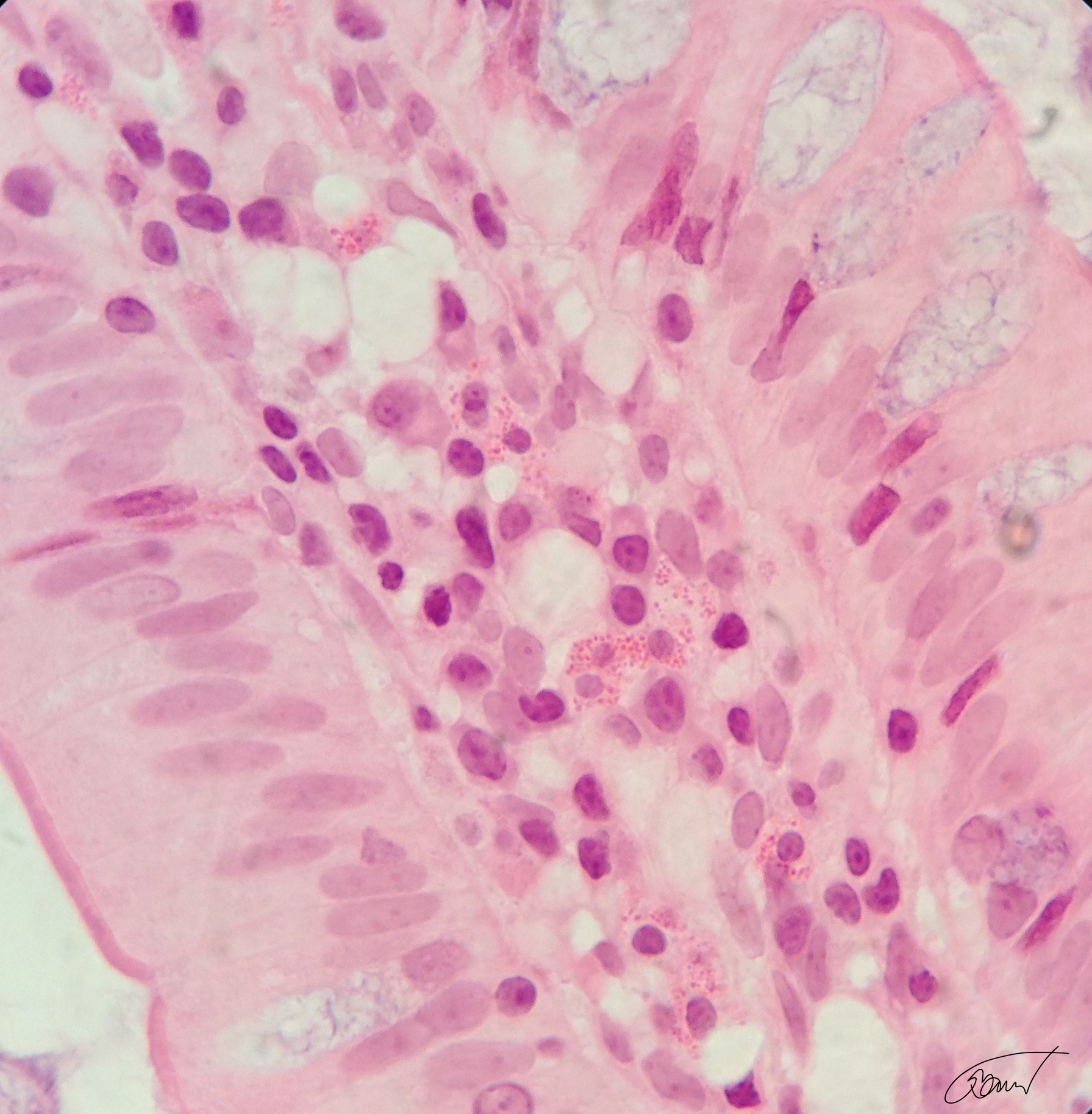 Intestinal villus of Ileum (100x magnification)